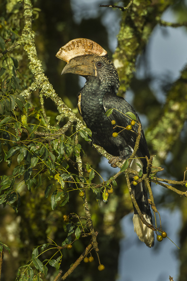 Silvery-cheeked Hornbill - Kenya_S4E7236